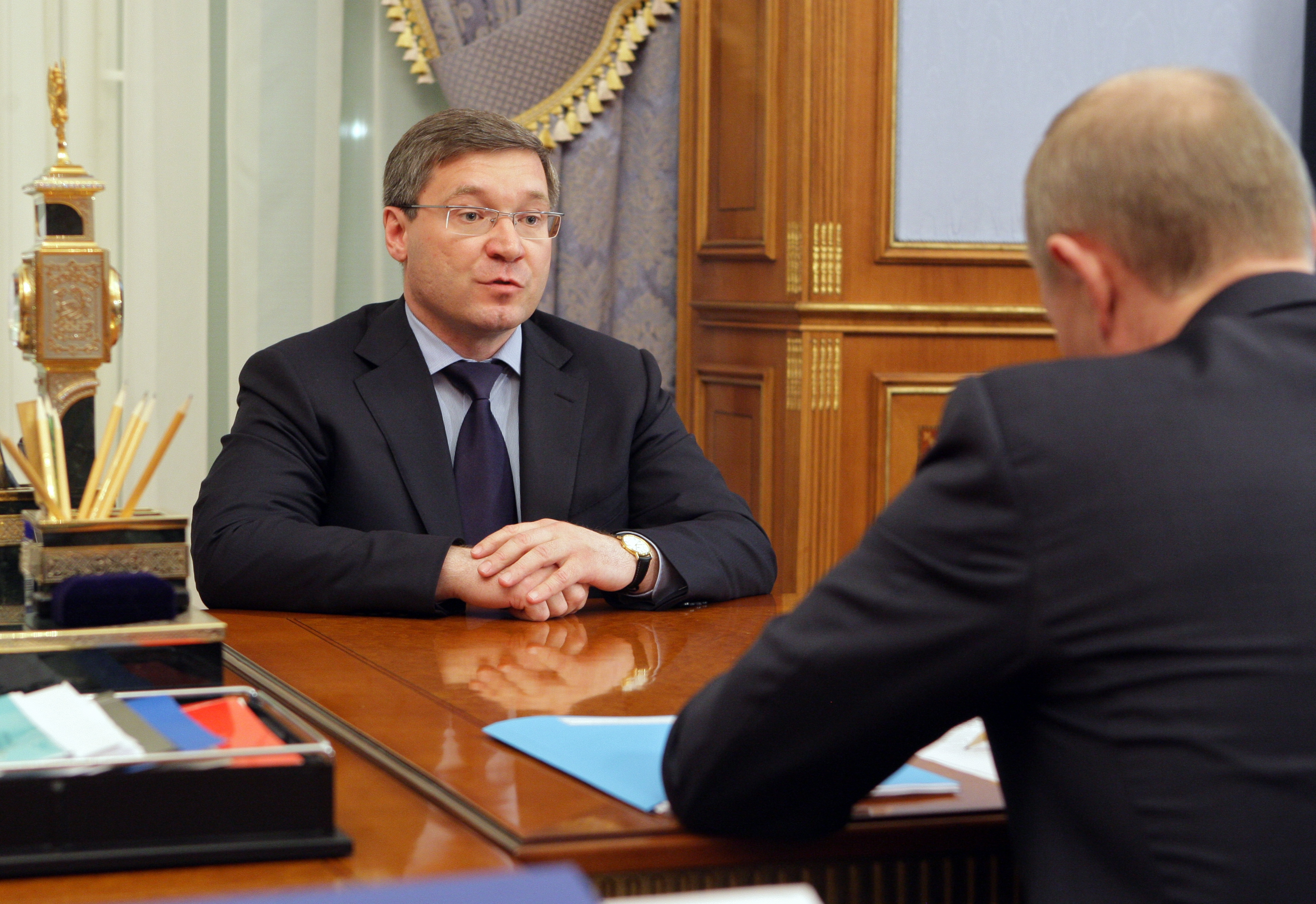 Tyumen Region Governor Vladimir Yakushev at a meeting with Prime Minister Vladimir Putin